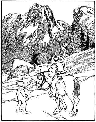 Illustration by Otto Ubbelohde to the fairy tale The Water of Life